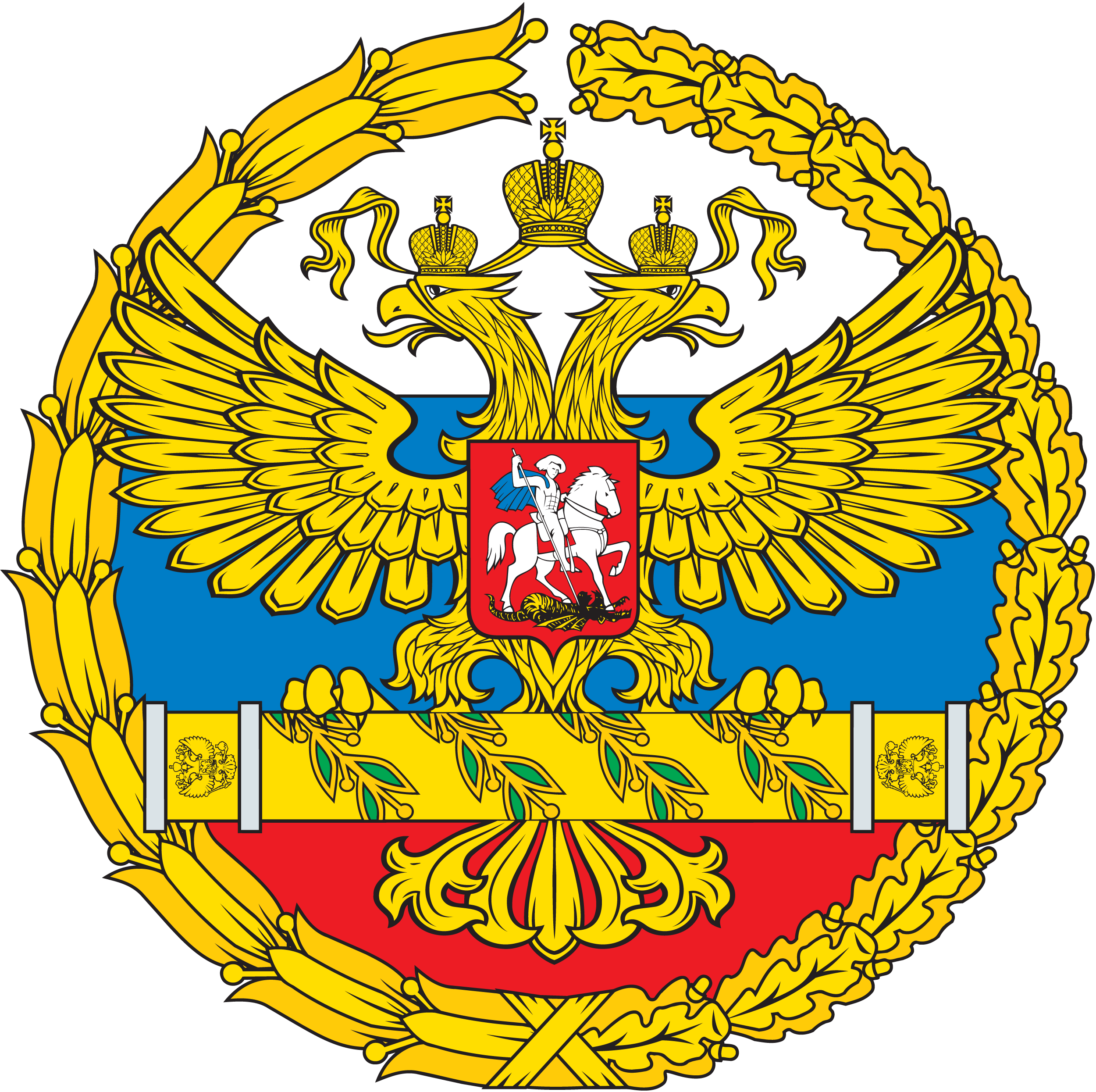 Insignia of the Supreme Commander-in-Chief of the Russian Armed Forces.